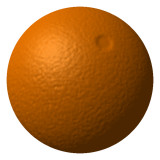 Orange sphere with a bump map, rendered in POV-Ray